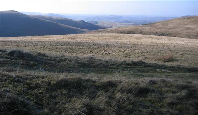 Looking at Bassenthwaite from Uldale Fells.